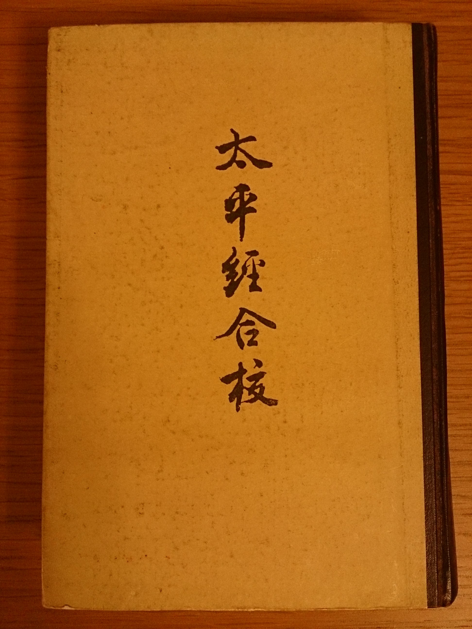 王明《太平經合校》封面